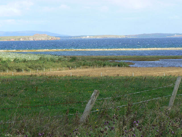 The Long Ayre. The Long Ayre is a gravel bank (like a miniature Chesil Bank) extending for almost a kilometre, enclosing a tidal pool between Weethick Head, and the Hall of Yenstay.